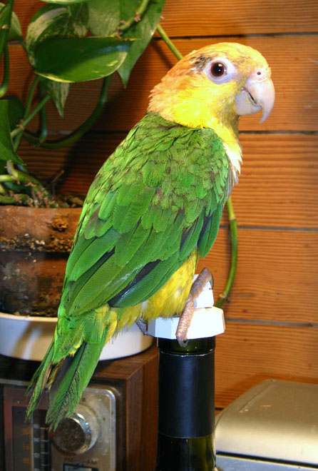 A juvenile pet White-bellied Parrot.